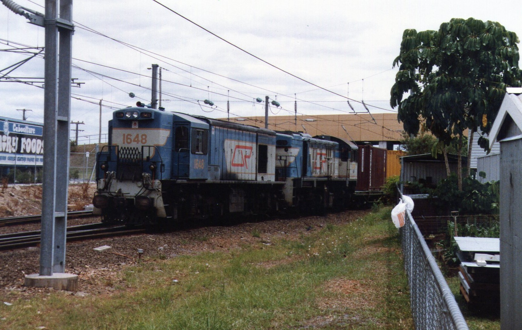 QR loco 1648 and a 1720 class loco haul a northbound goods train at Caboolture, ~1989